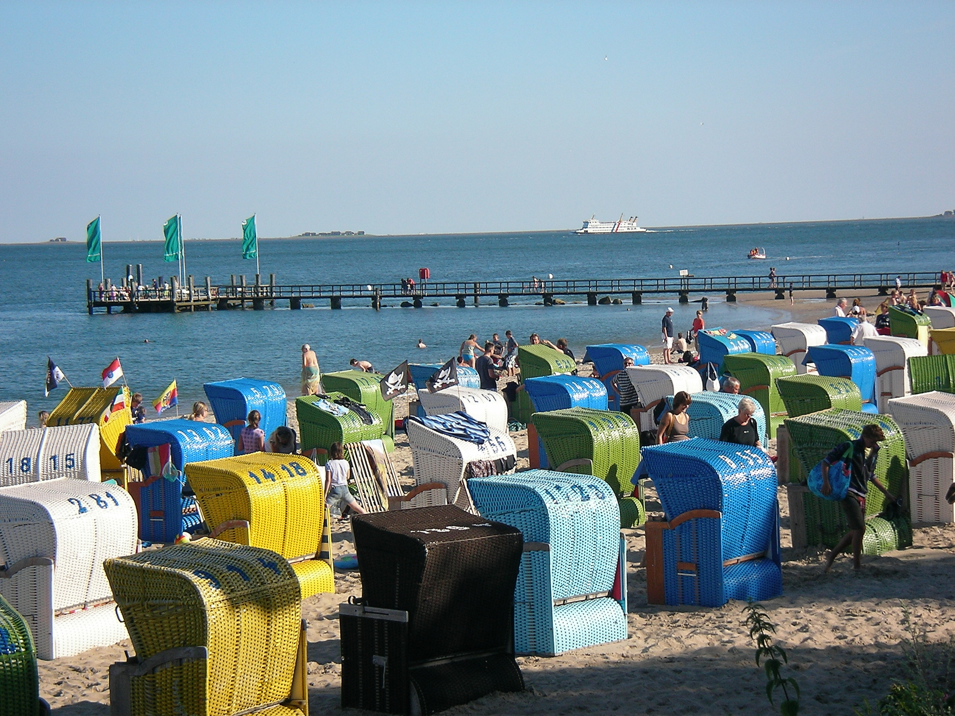 Beach at Wyk auf Föhr